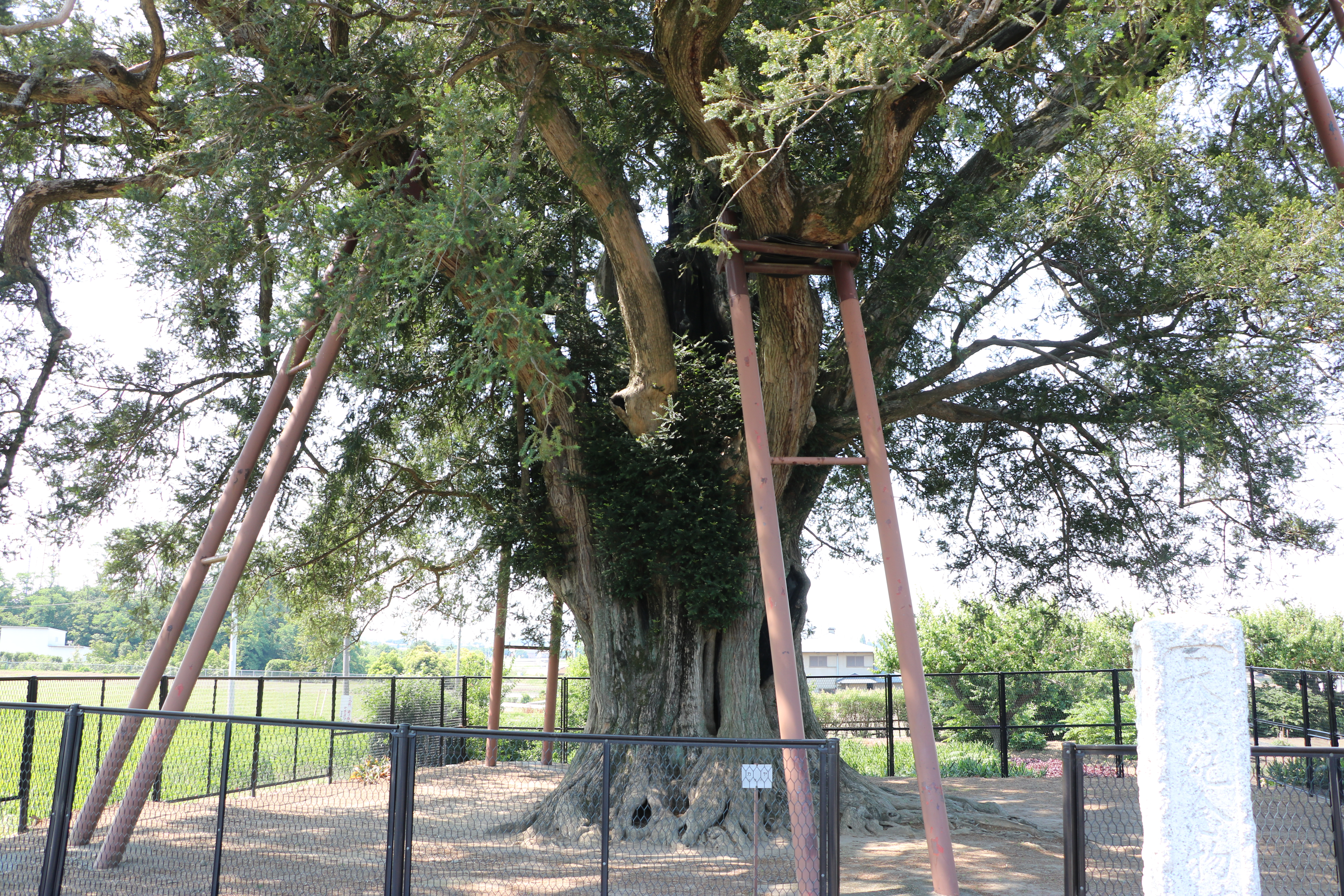 Yokomuro no O-Kaya